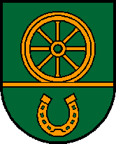 coat of arms of Rainbach im Muehlkreis